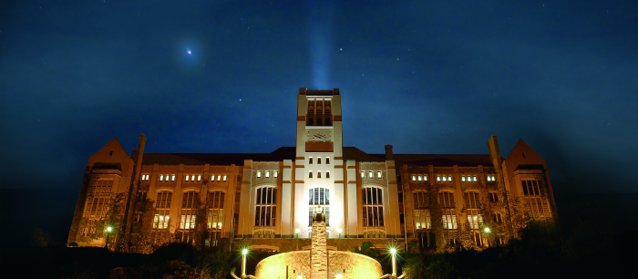 night sight of UTFSM